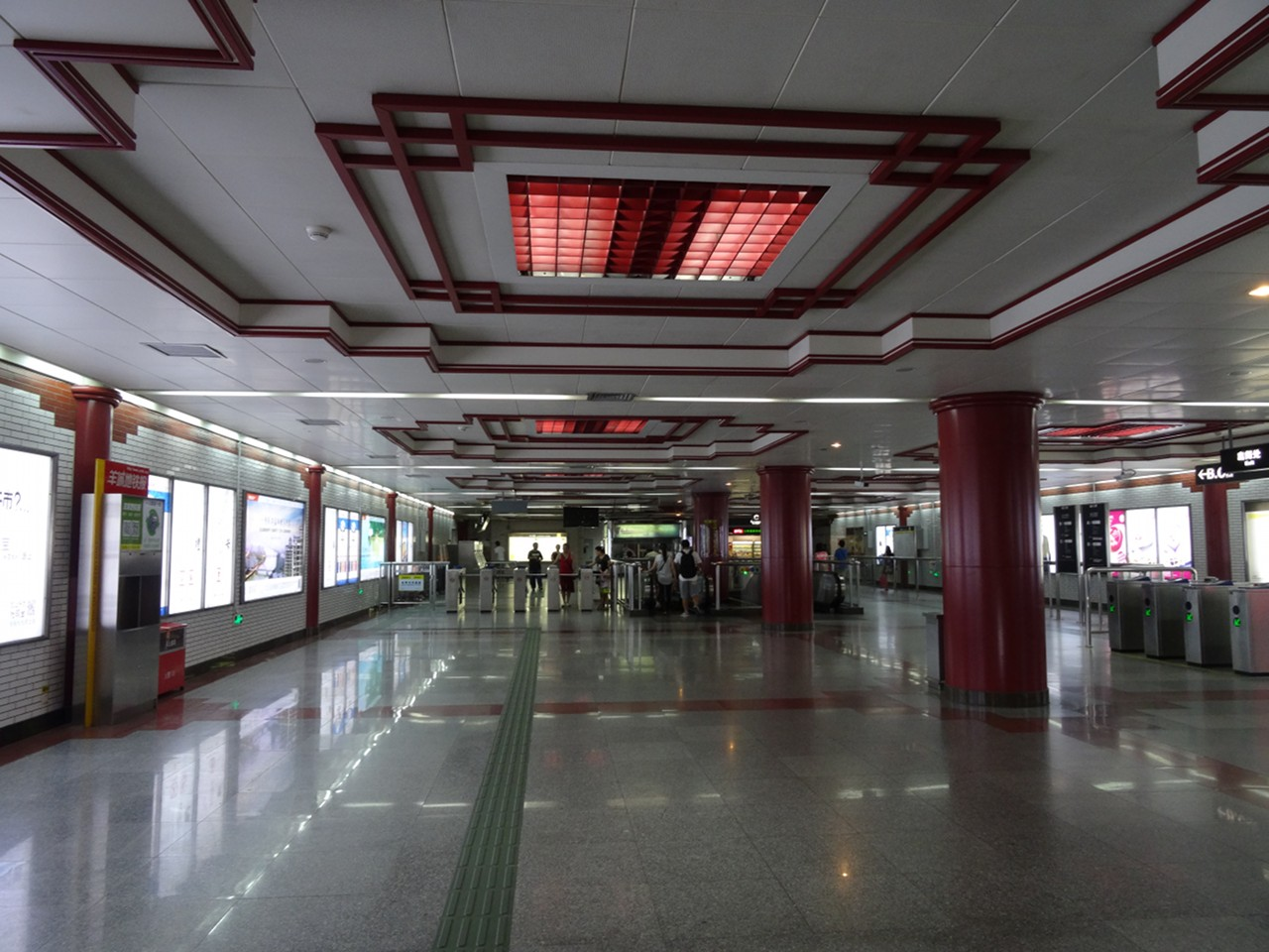 农讲所站嘅站厅